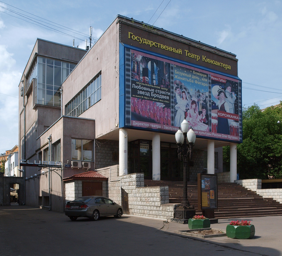 Povarskaya Street, Moscow - Movie Actors' Theater.